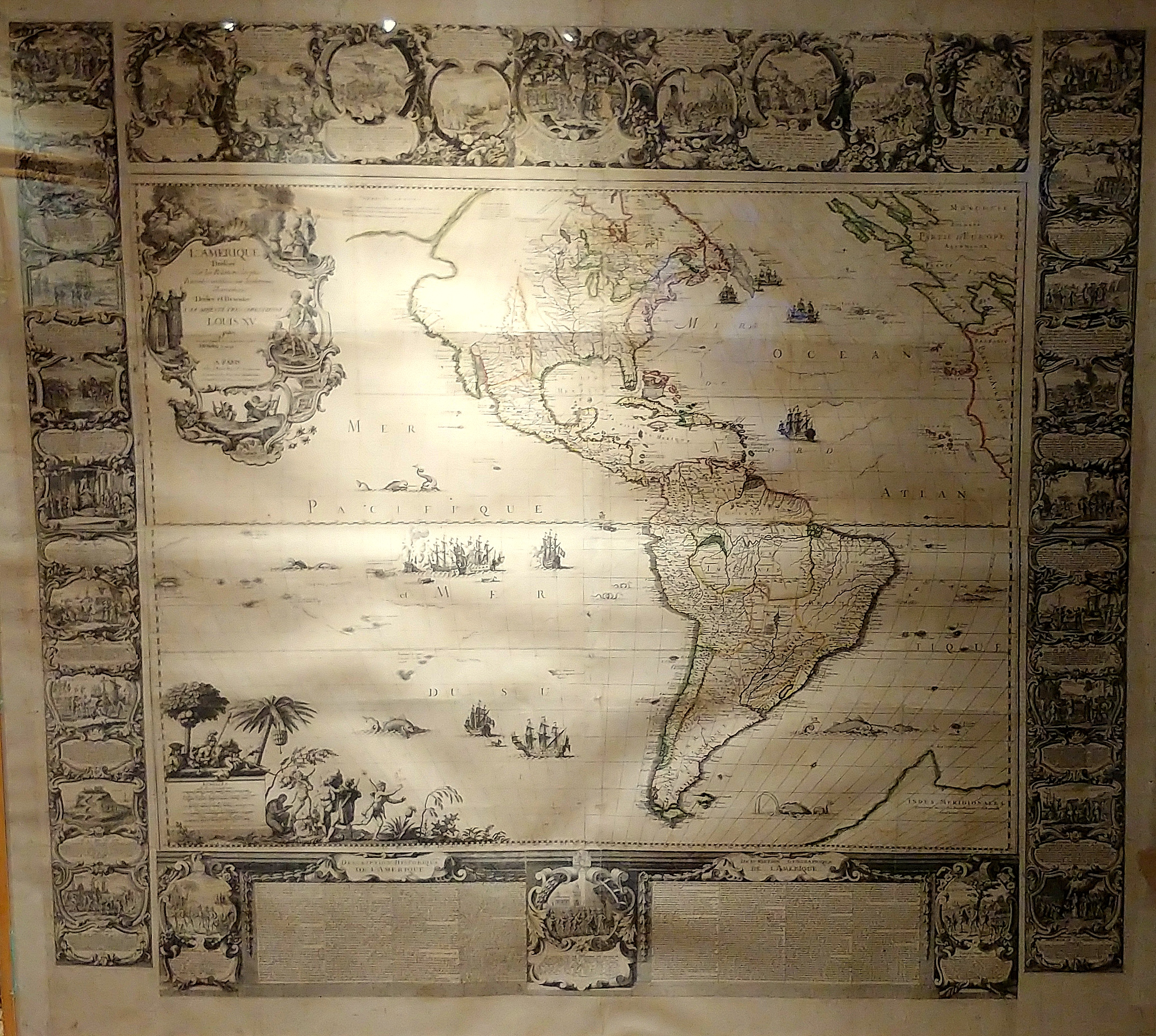 America Map by Jean-Baptiste Nolin